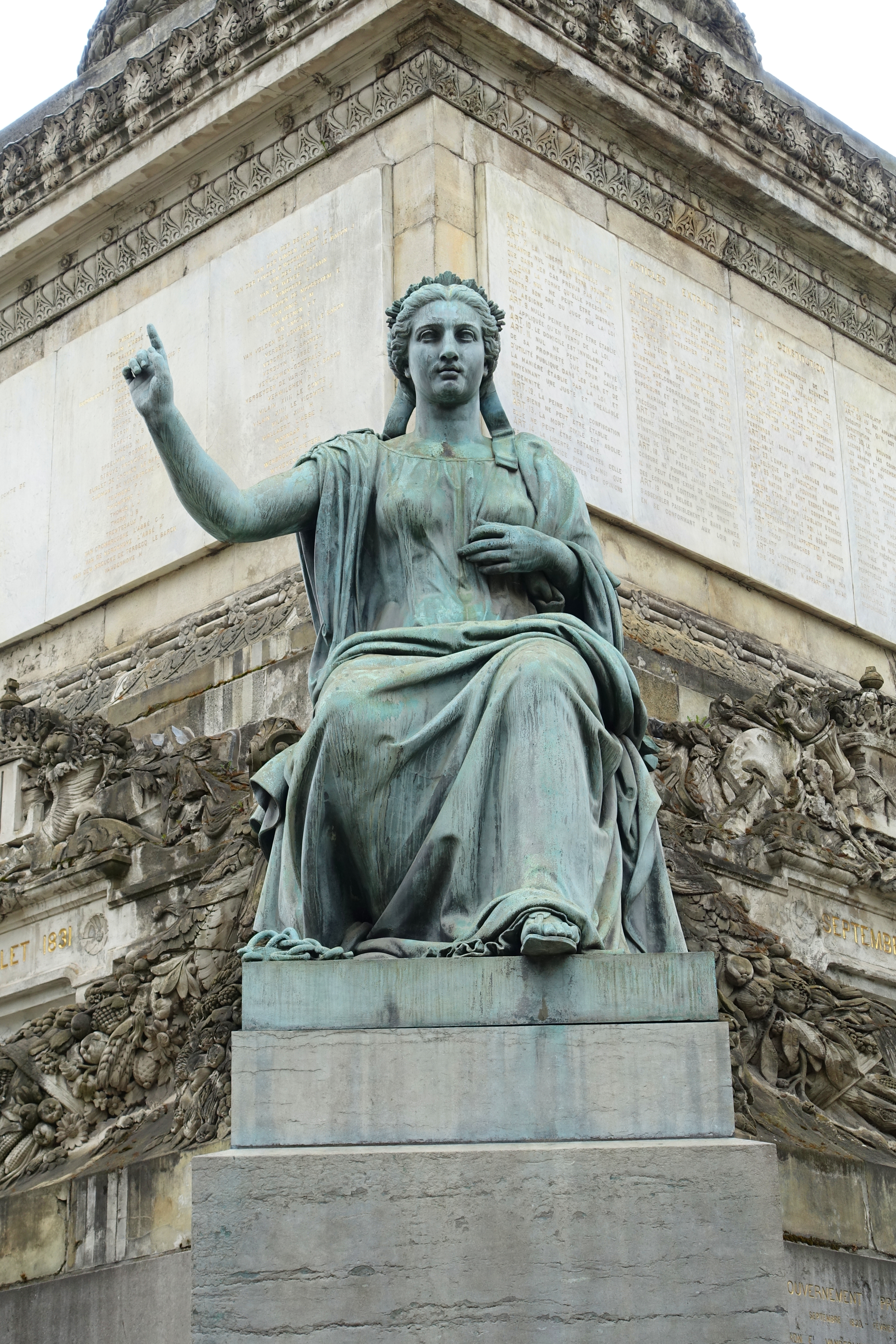 Freedom of Religion by Eugène Simonis - Congress Column - Brussels, Belgium. This work is in the public domain because the sculptor died more than 70 years ago.